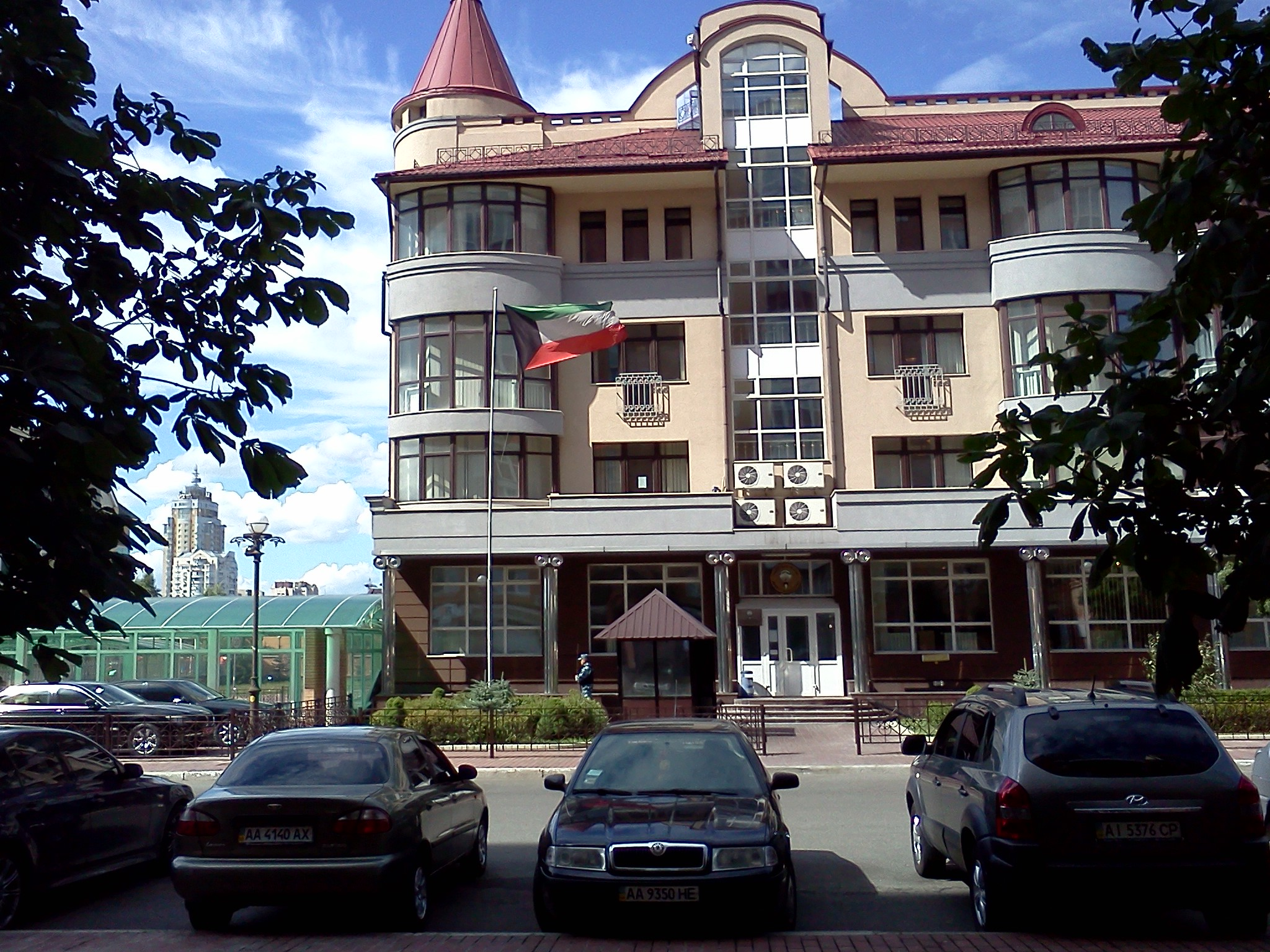 Embassy of Kuwait in Kyiv